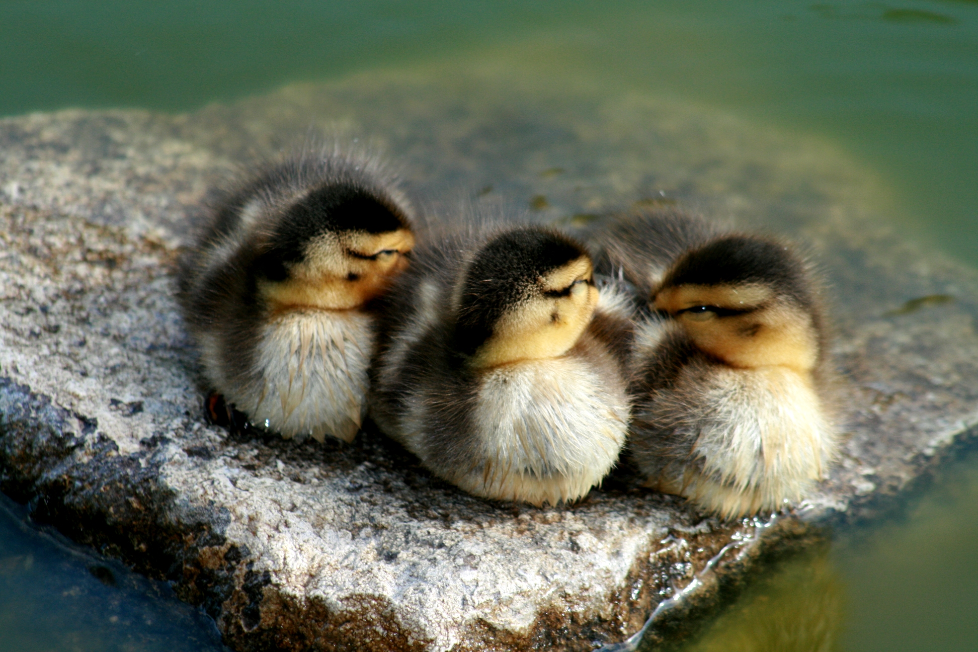 Anas platyrhynchos (Mallard) ducklings in San Francisco, California.